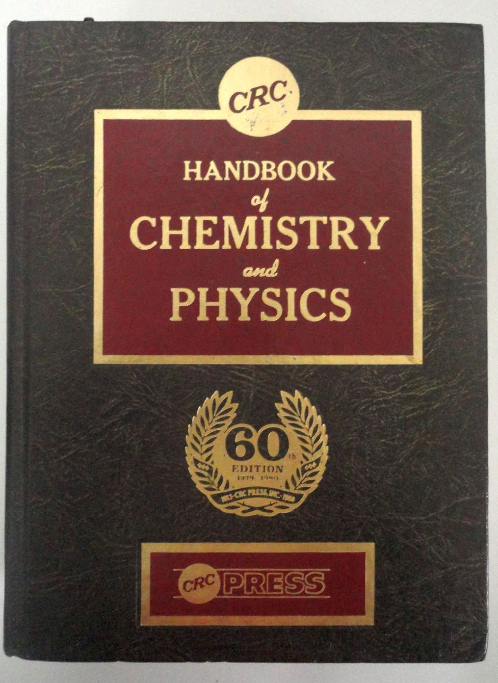 CRC Handbook of Chemistry and Physics, 60th Edition (Title)